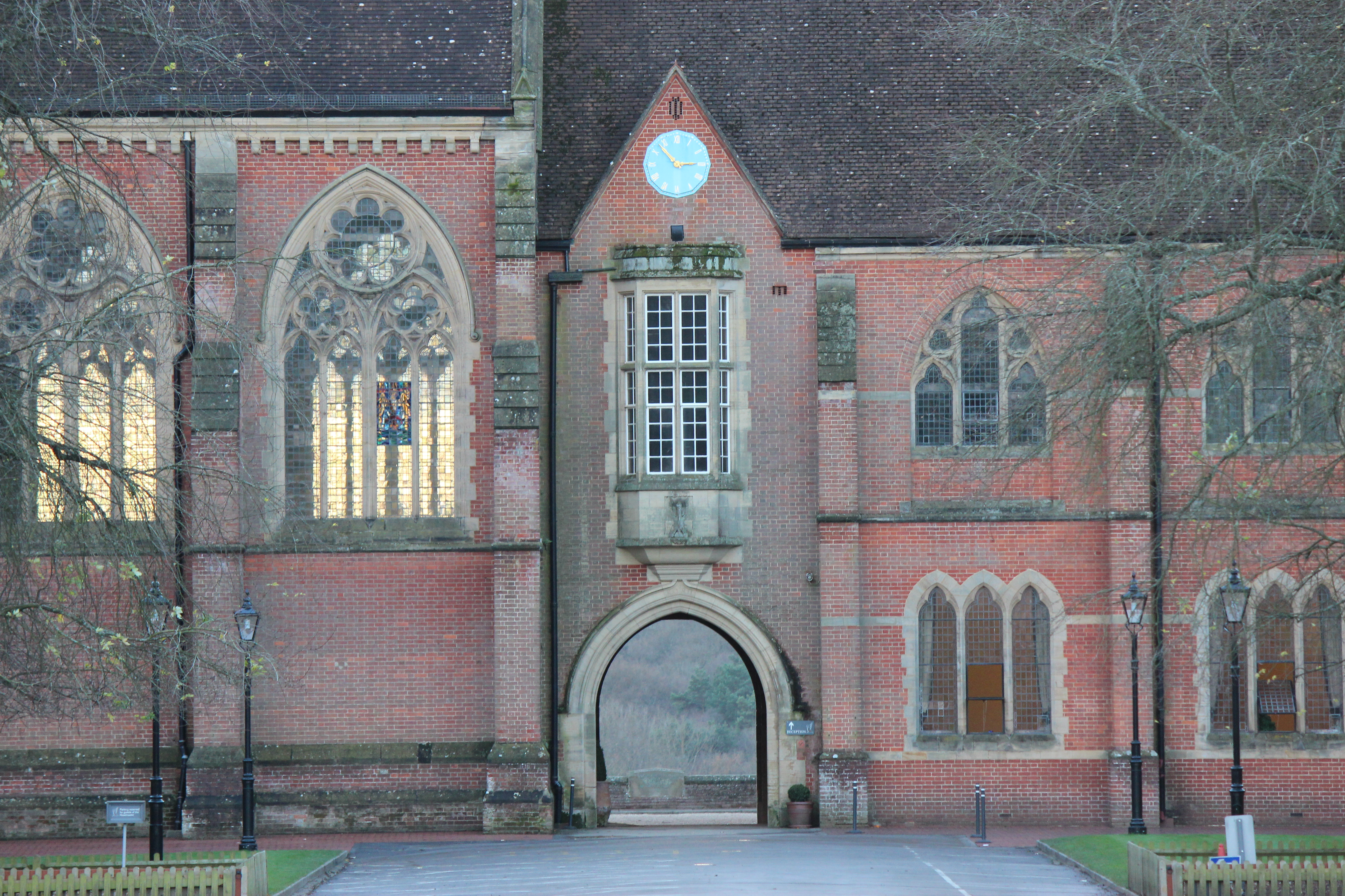 Ardingly College